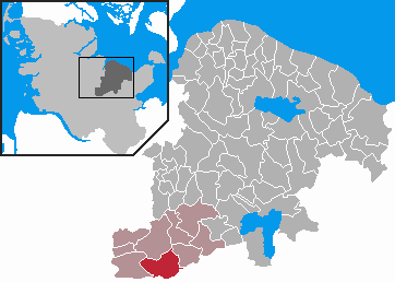 This map shows the area of the Gemeinde (municipality) Rendswühren in the Kreis (district) Plön, Schleswig-Holstein, Germany.